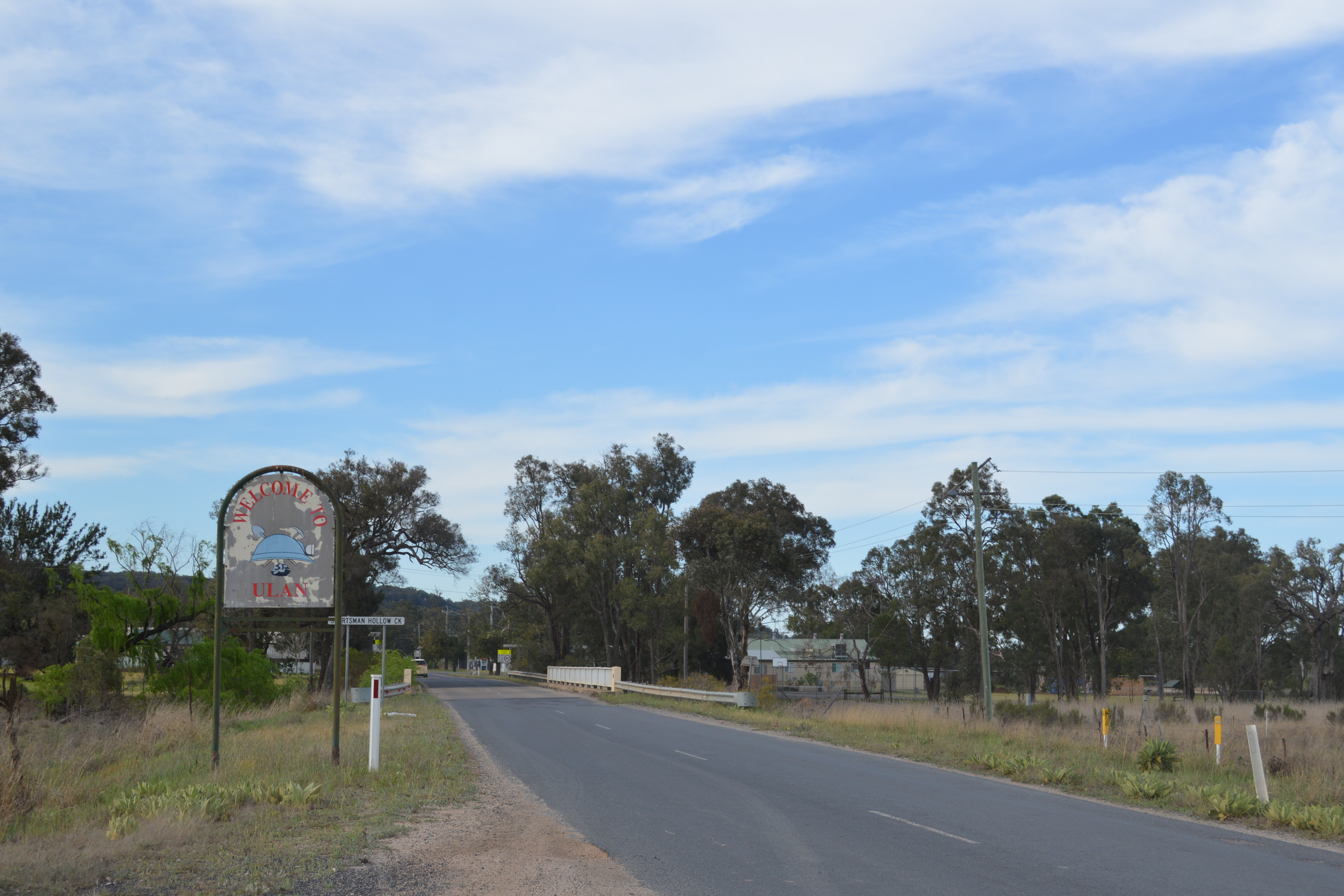 Town entry sign at